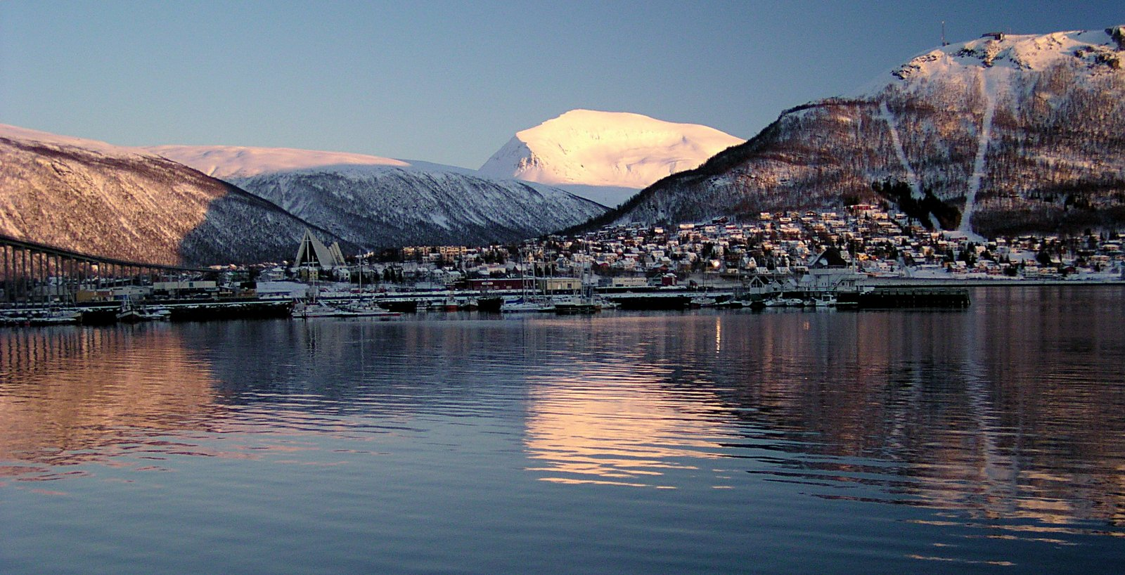 Tromsdalen on a sunny afternoon in march 2006. Photograph taken from Tromsøya, facing east toward the mainland.